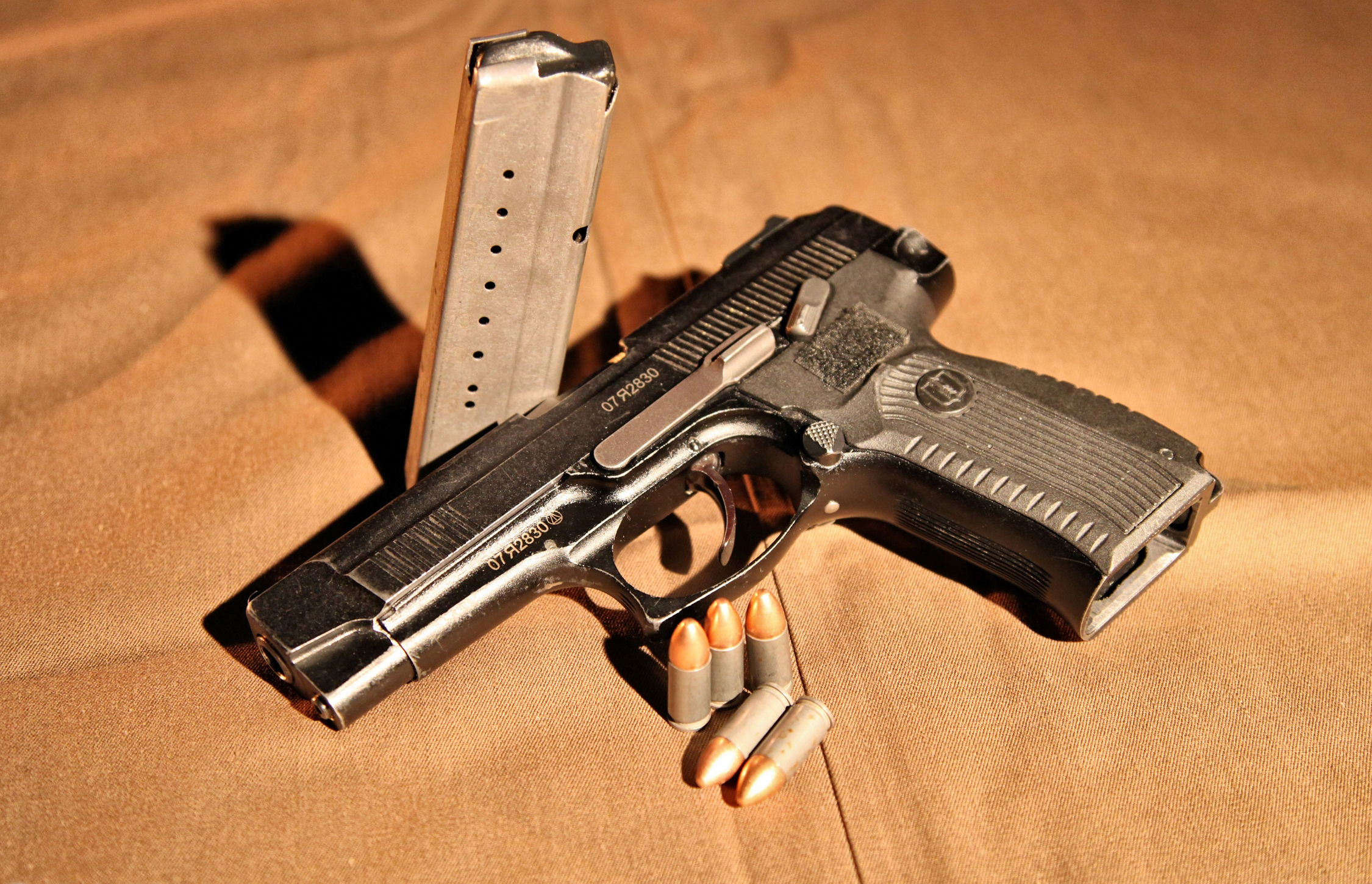 9mm Yarygin pistol PYa - MP-443 Grach.